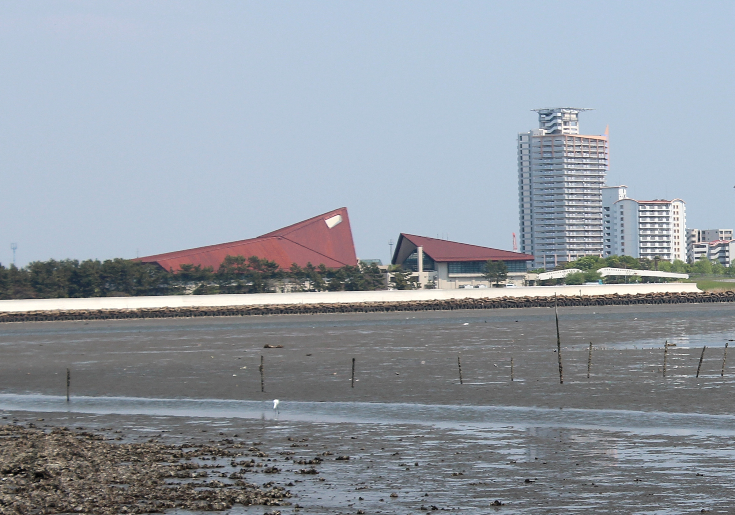 Inae sports center seen from Fujimae-higata in Minato-ku, Nagoya, Aichi prefecture, Japan.